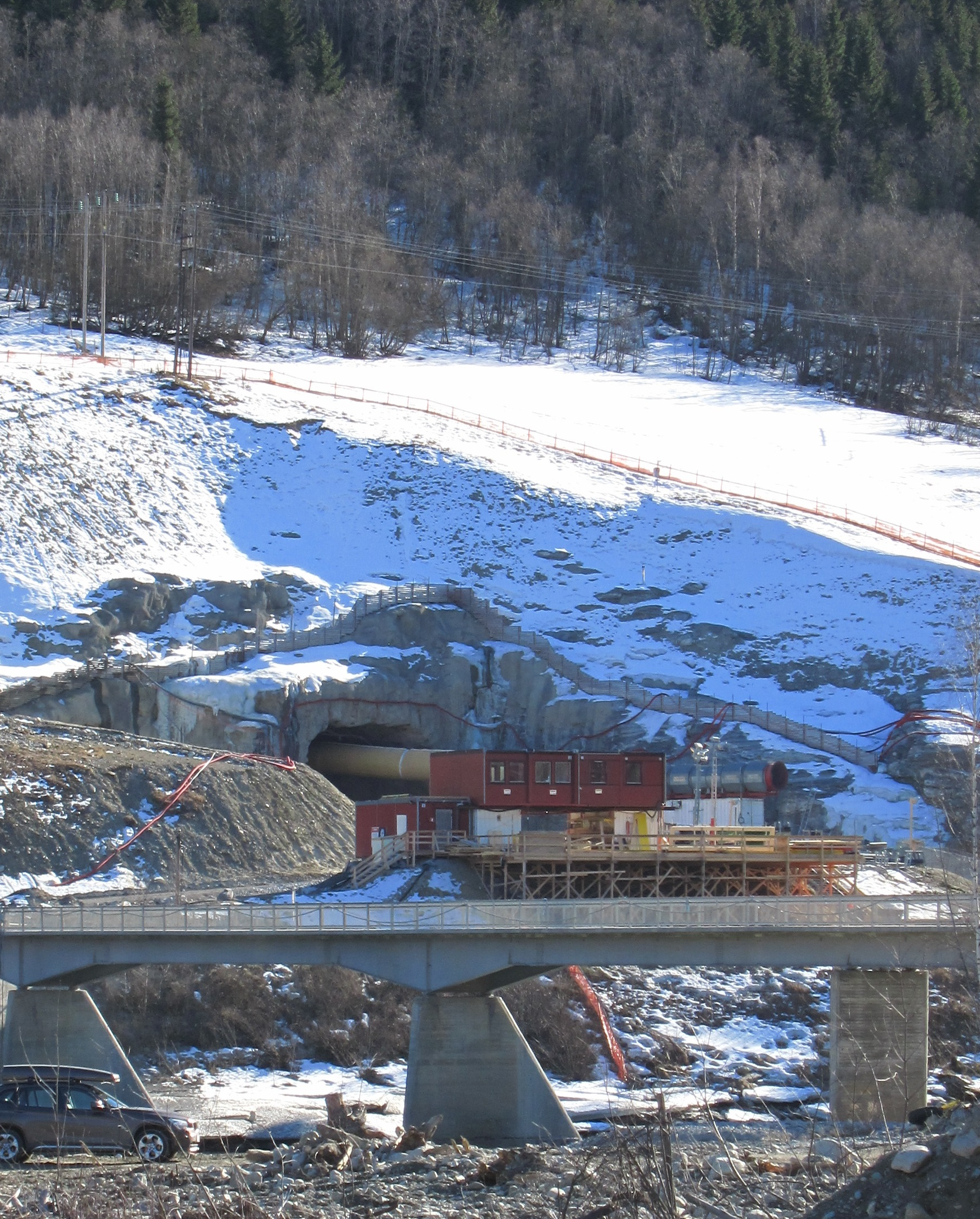 Teigkampen tunnel construction, road E6 at Kvam